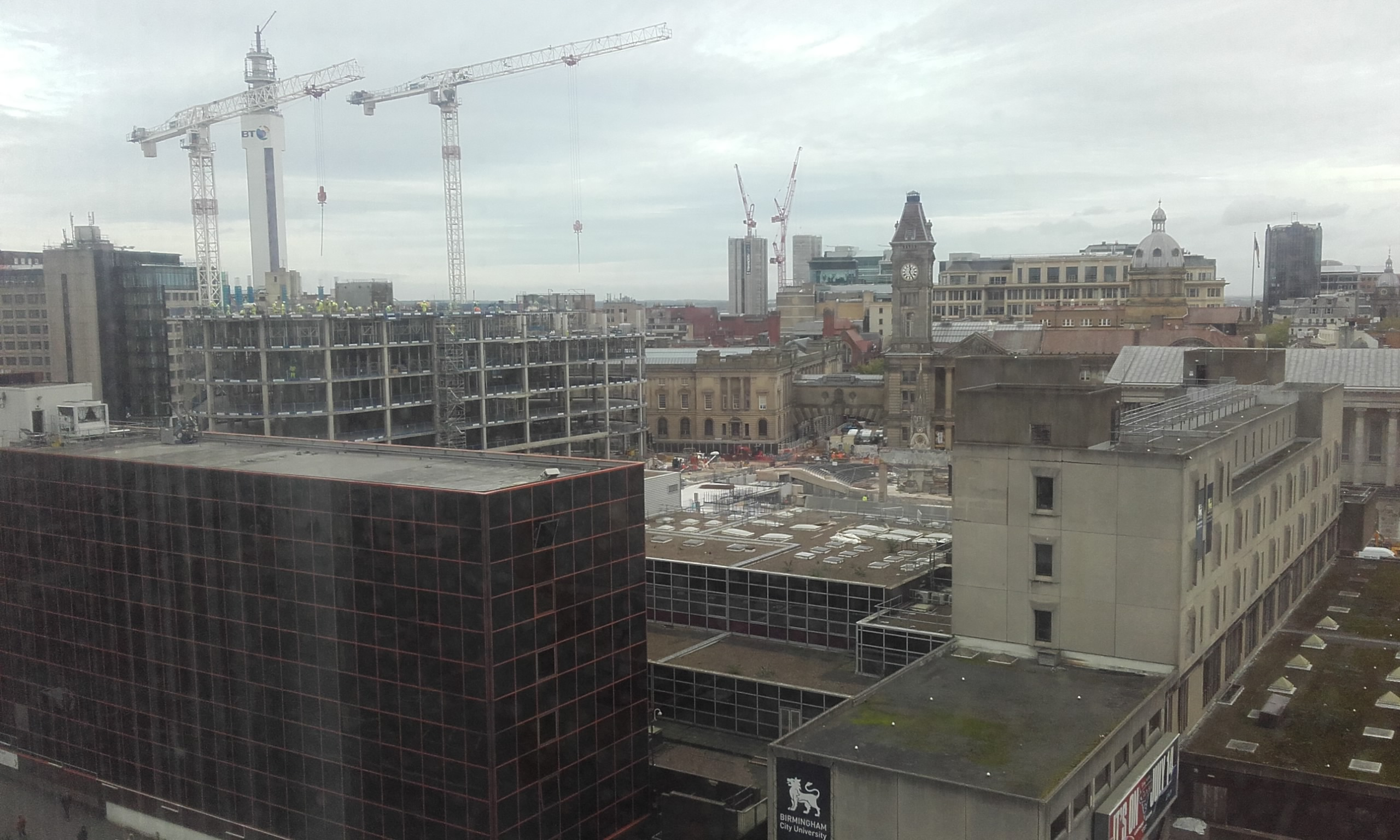 Redevelopment of Paradise, formerly Paradise Circus, Birmingham